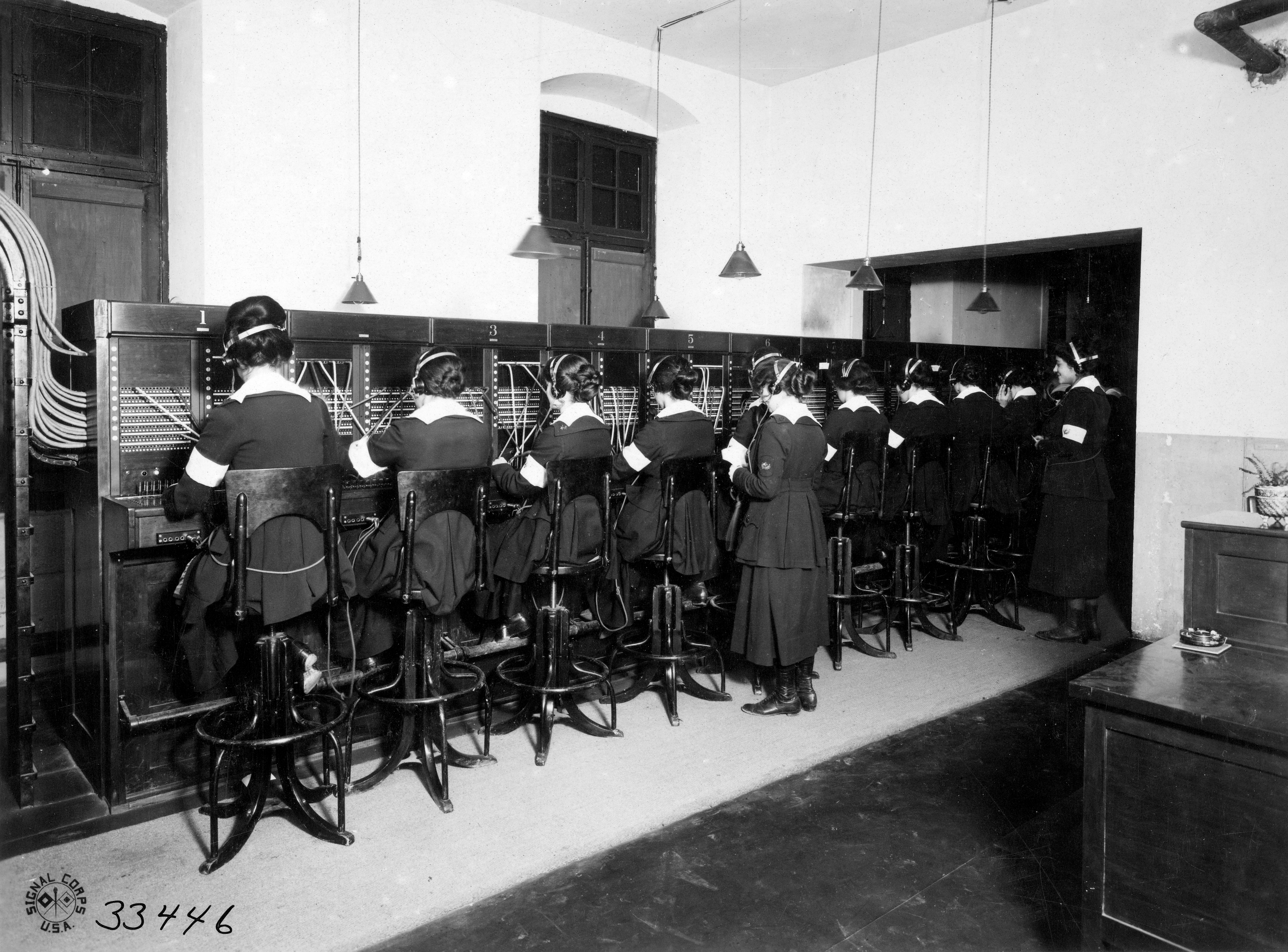 Female US Signal Corps Telephone Operators in Chaumont, France during WWI. G.H.Q. Chaumont, Hte Marne, France. From: [1]